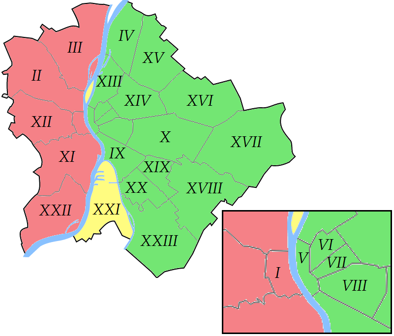 Districts of Budapest colored